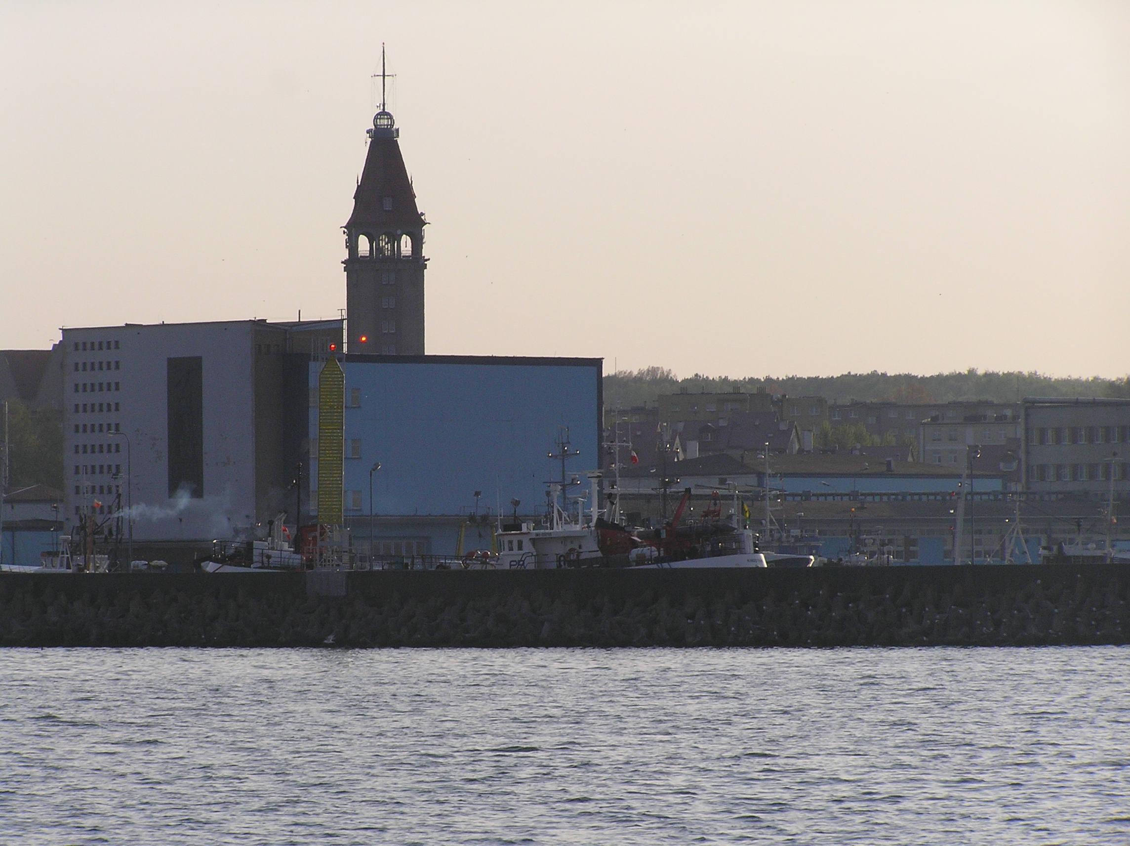 Range lights in Władysławowo